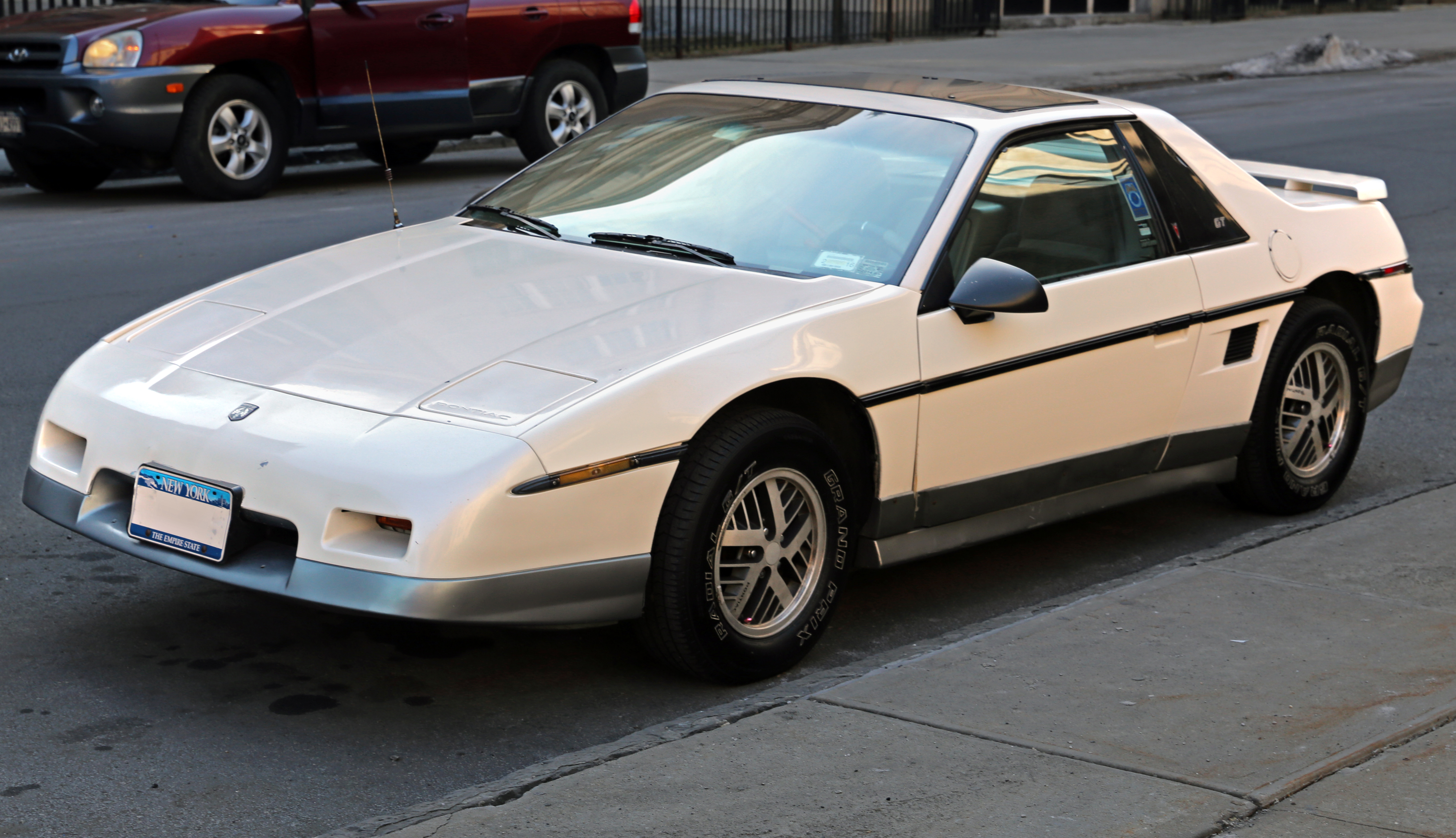 A 1985 Pontiac Fiero GT, the first year for the GT as well as the 2.8 litre V6 engine with which this is fitted.